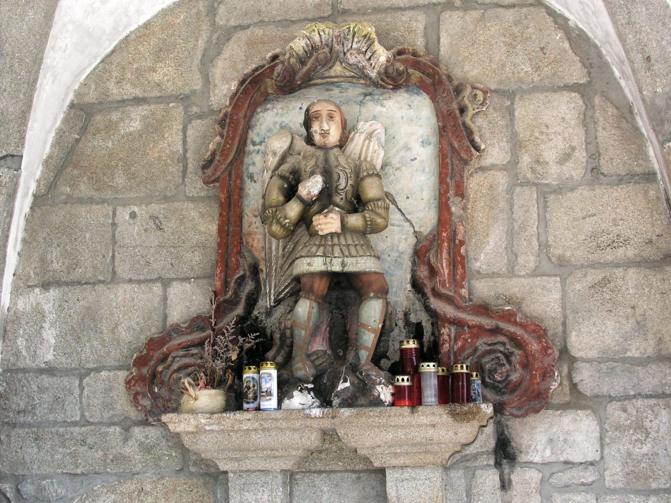 Capela do Anjo da Guarda, Ponte de Lima, Portugal.